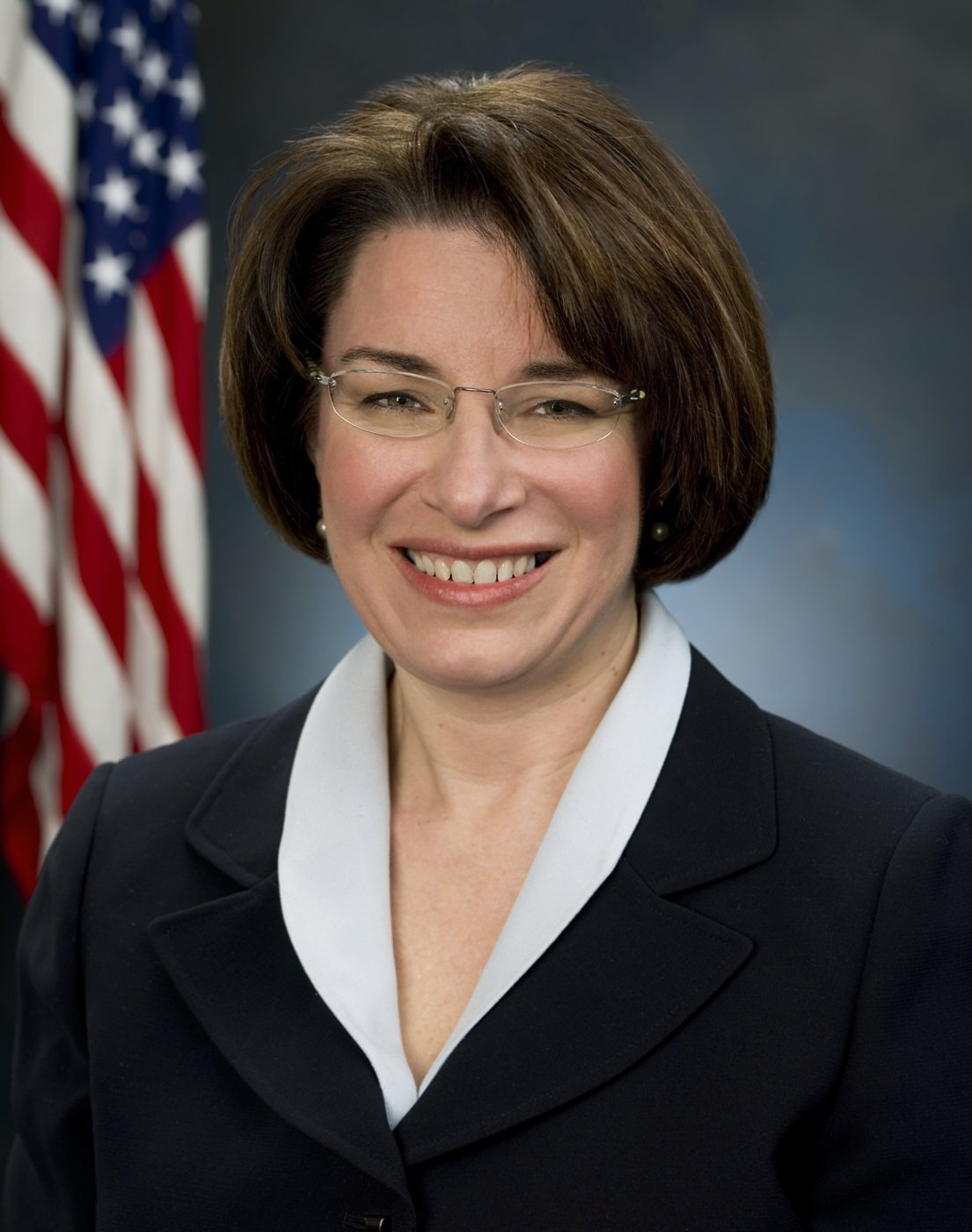 Amy Klobuchar, member of the United States Senate